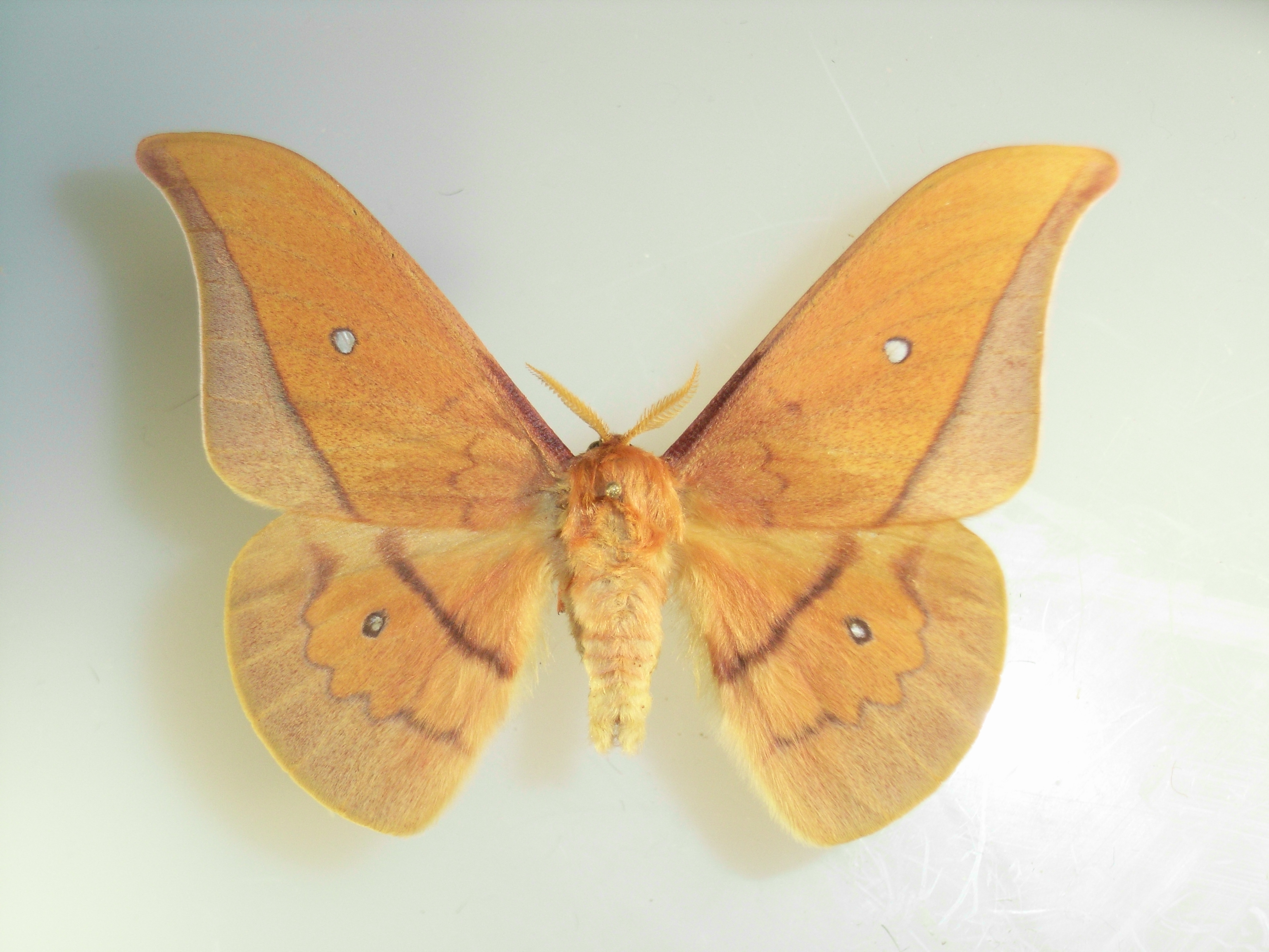 Cricula trifenestrata Helfer, 1837 Male Assam India Ex coll. Felix Stumpe